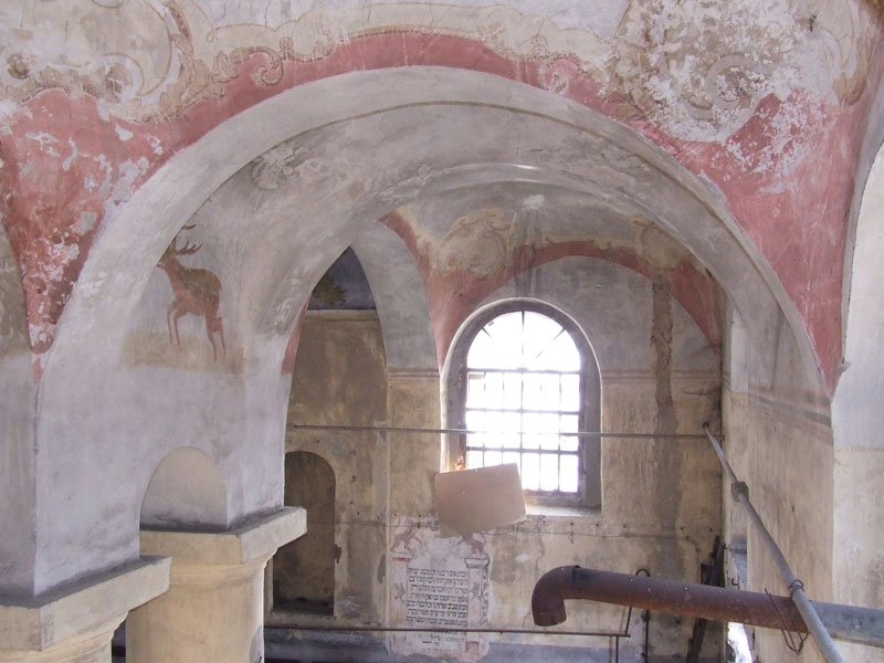 Synagogue in Bychawa